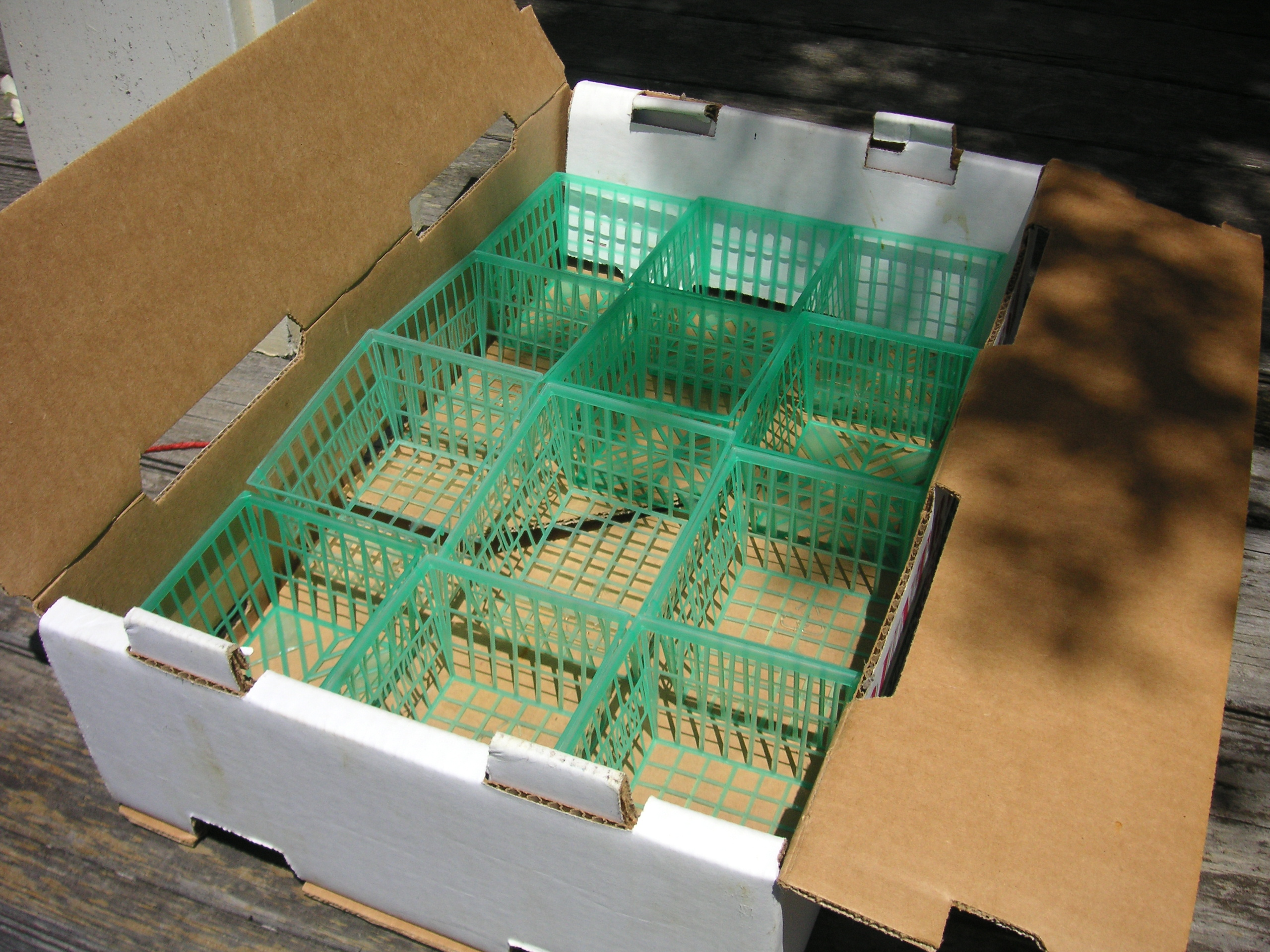 I am ready to pick berries!